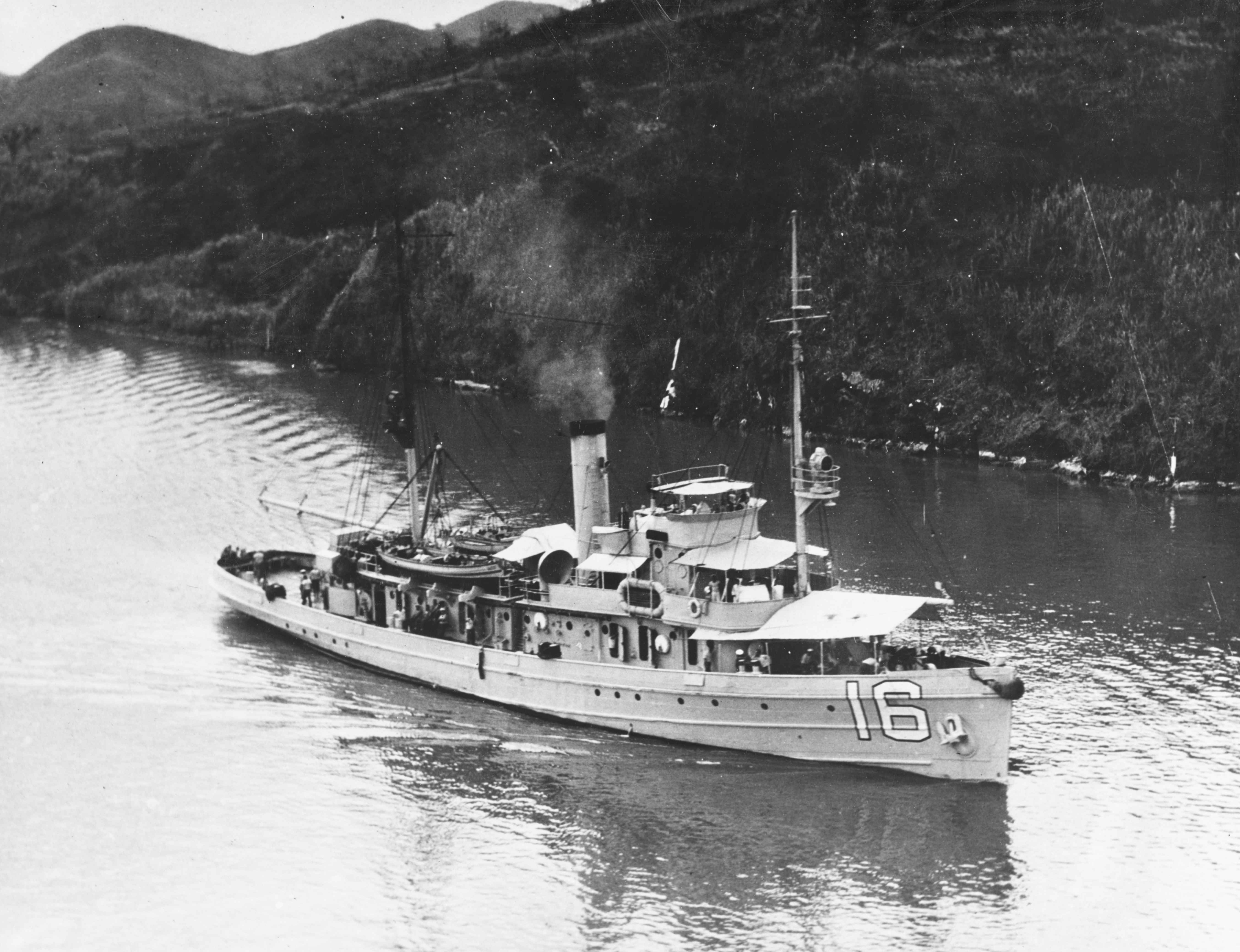 The U.S. Navy minesweeper USS Partridge (AM-16) transiting the Panamal Canal, circa in the 1920s.